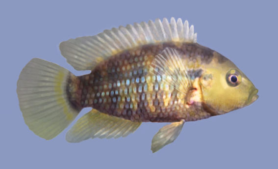 Australoheros facetus